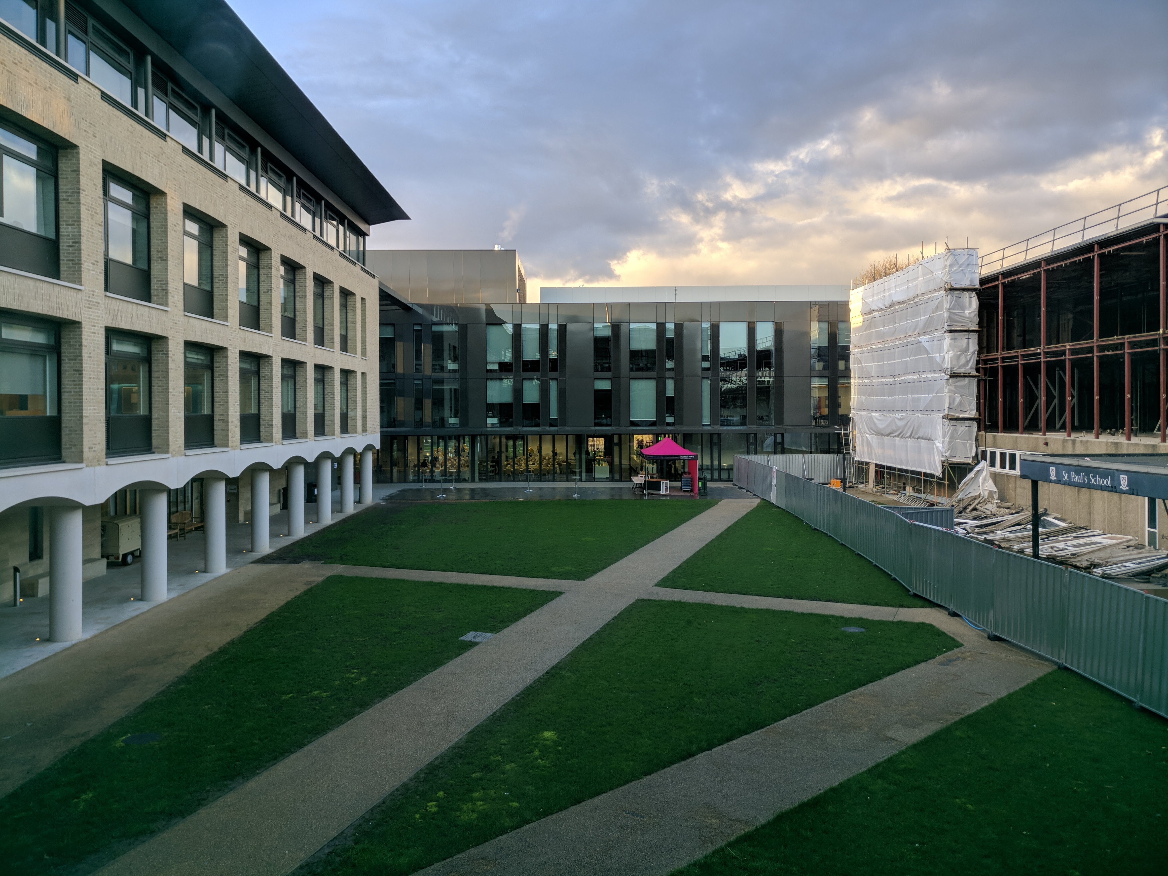 This photo is a view from the first floor of the new science block, opened in 2013, part of which is visible on the left. In the centre is the first phase of the new general teaching block building as part of the school's renewal campaign. On the right is visible the half-demolished 60s general teaching block and the former main entrance of the school. In the foreground is the school's courtyard.